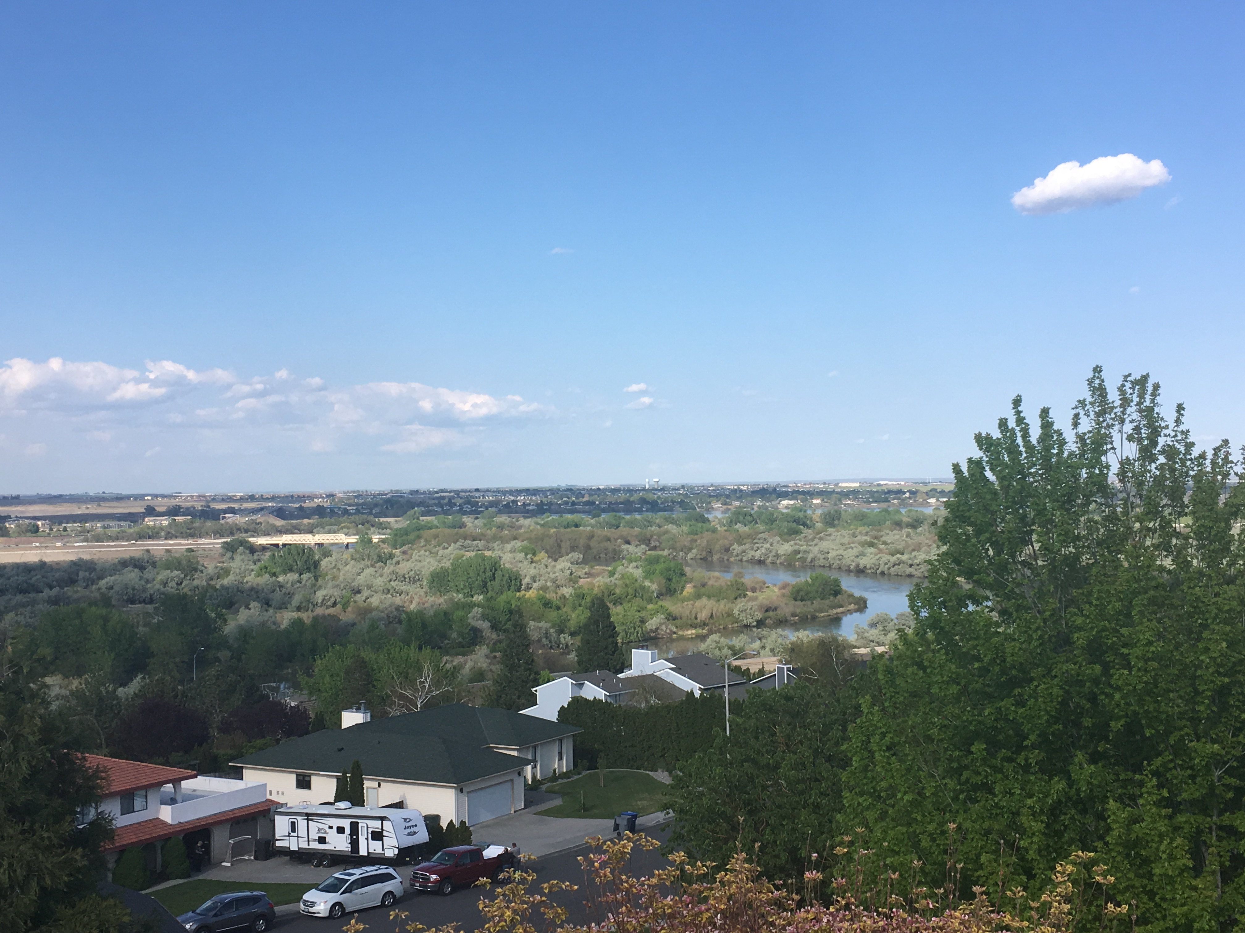 The Yakima River Delta as viewed from a neighborhood on the south side of Columbia Park Trail in Richland, Washington.